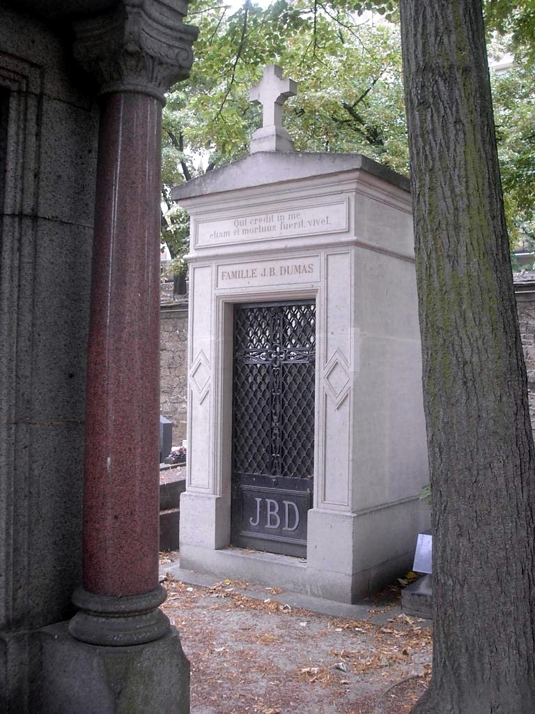 Personal photograph from about 2004; no rights claimed